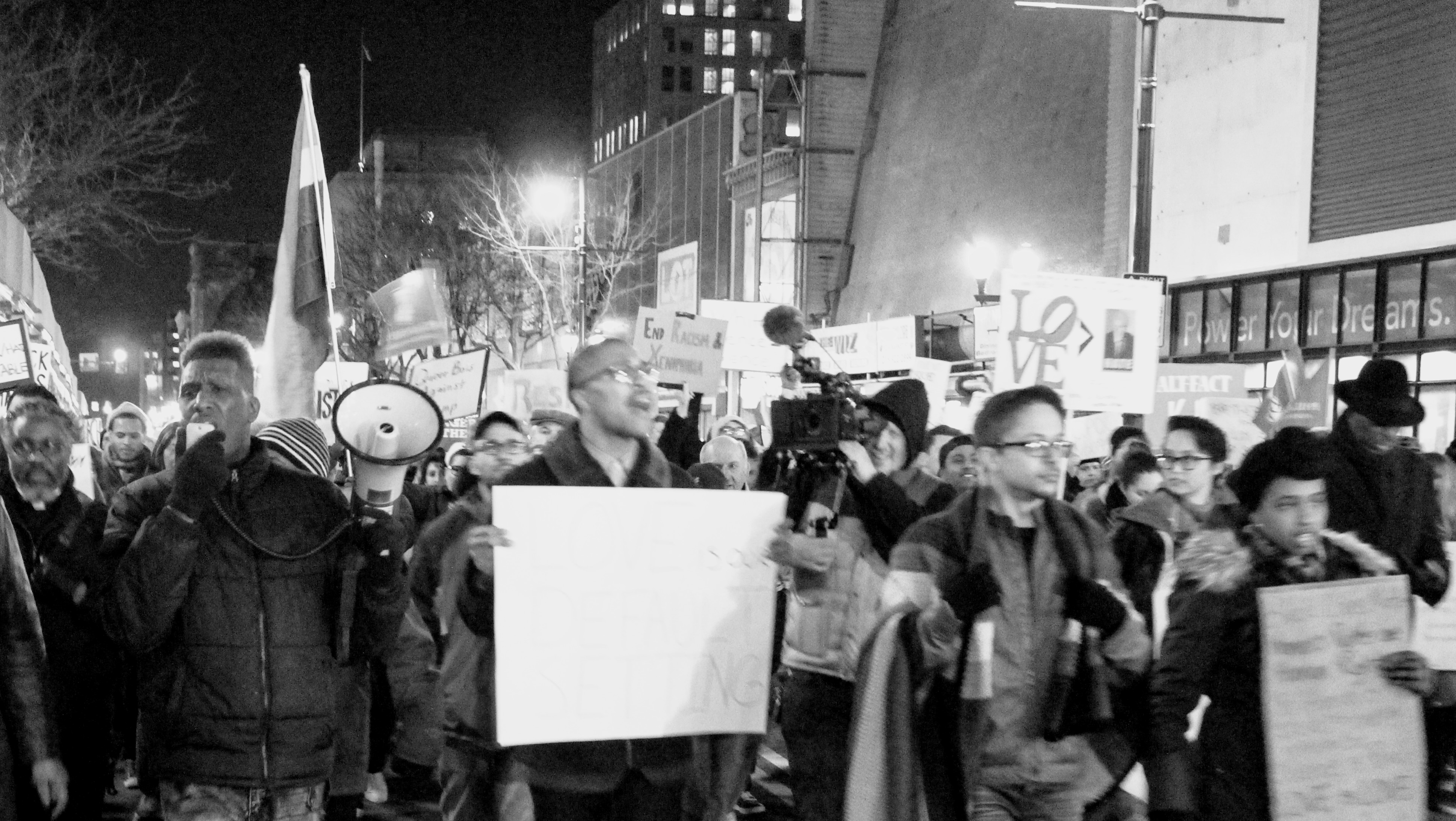 LGBTQ and Anti-Discrimination March in Philadelphia, PA